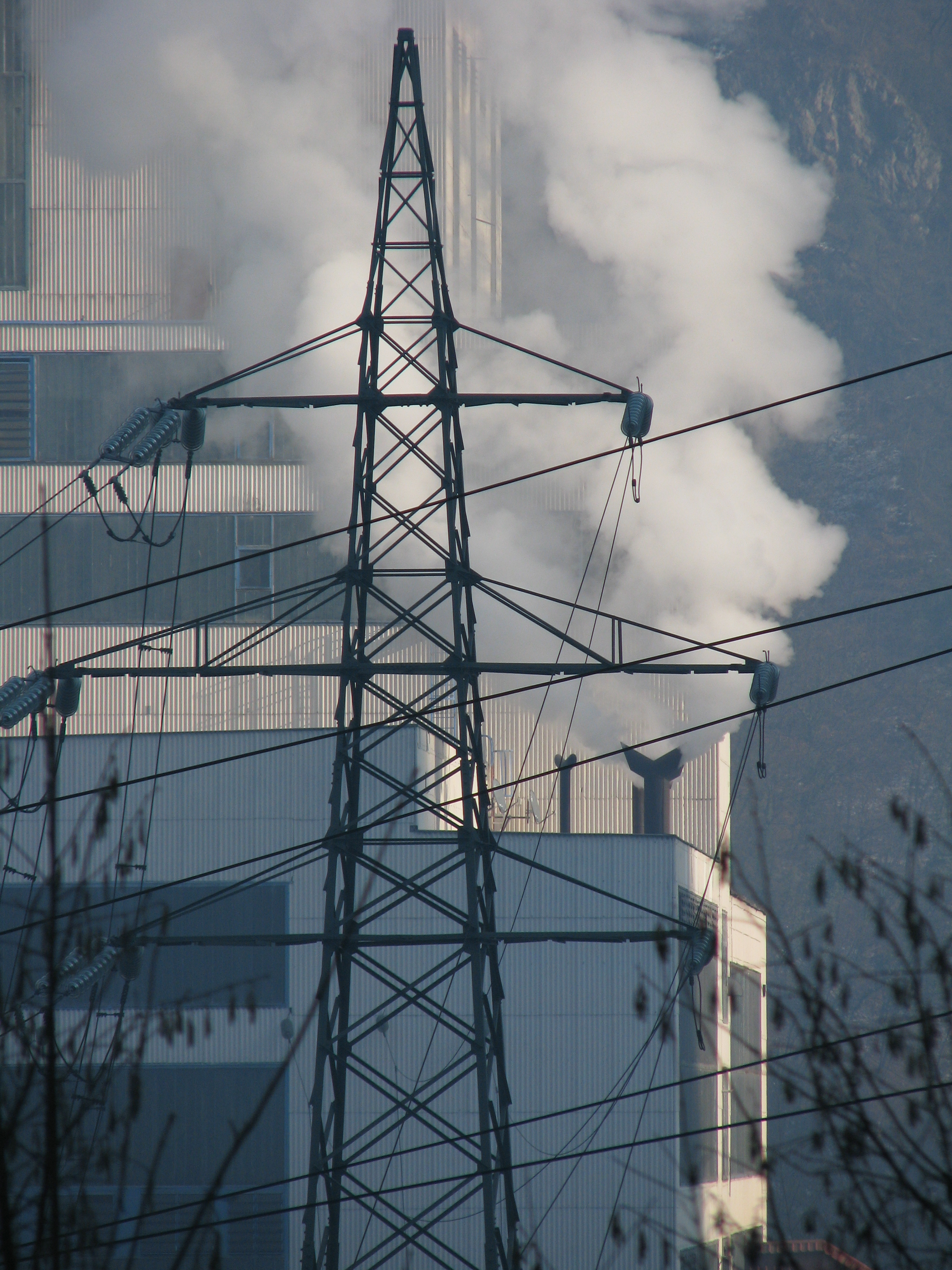 Exhaust from Trbovlje power plant.